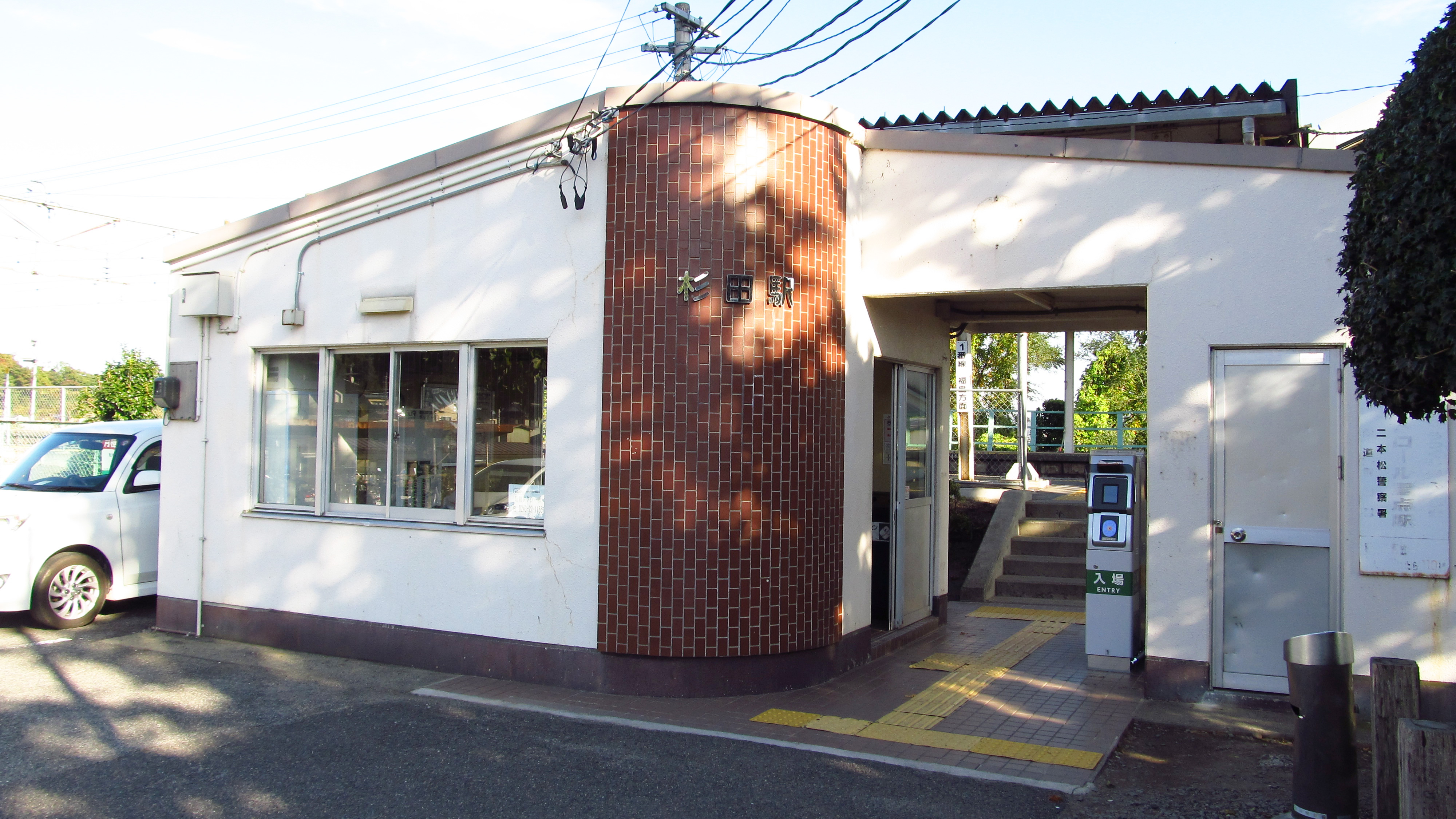 The building of Sugita Station on the Tōhoku Main Line in Nihonmatsu city, Fukushima prefecture, Japan